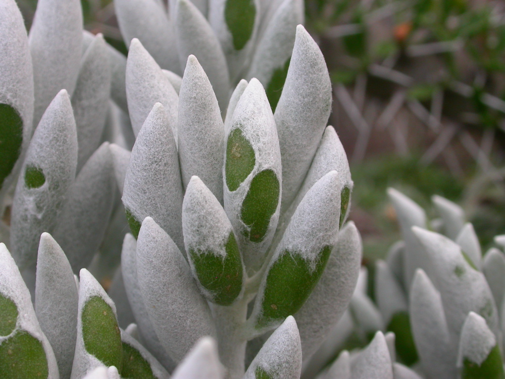 Senecio haworthii